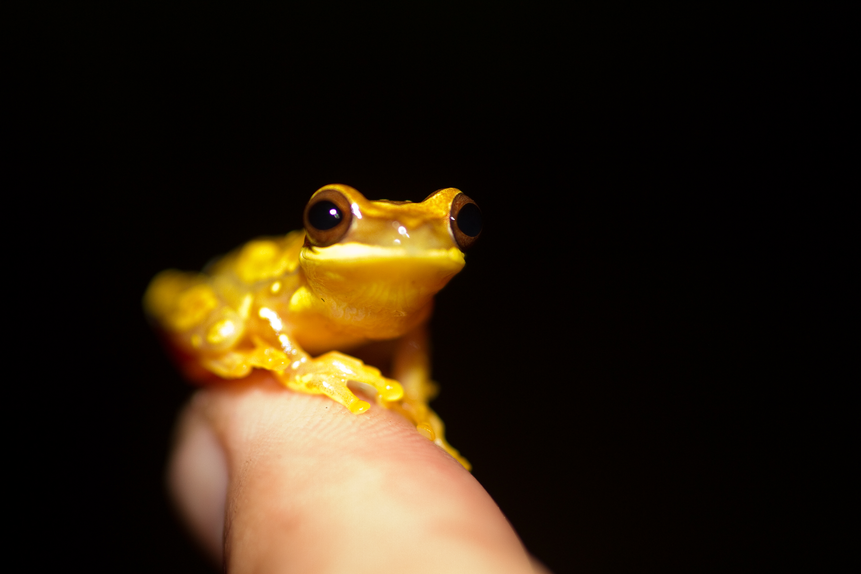 Hourglass tree frog